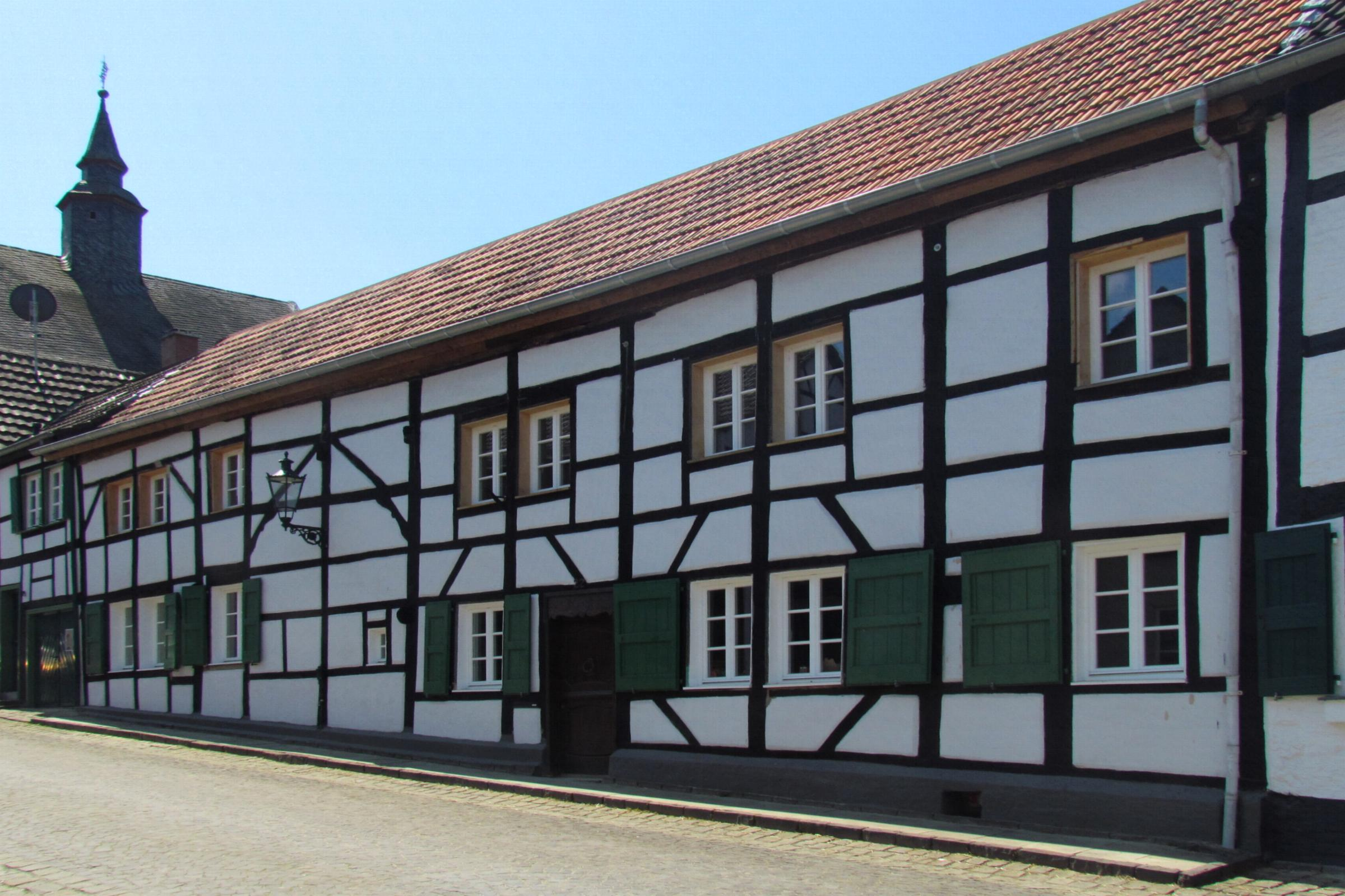 This is a photograph of an architectural monument.It is on the list of cultural monuments of Korschenbroich